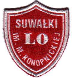 Emblem of Liceum Ogólnokształcące no. 1 in Suwałki.